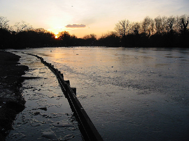 Picture of Connaught Waters, Epping Forest